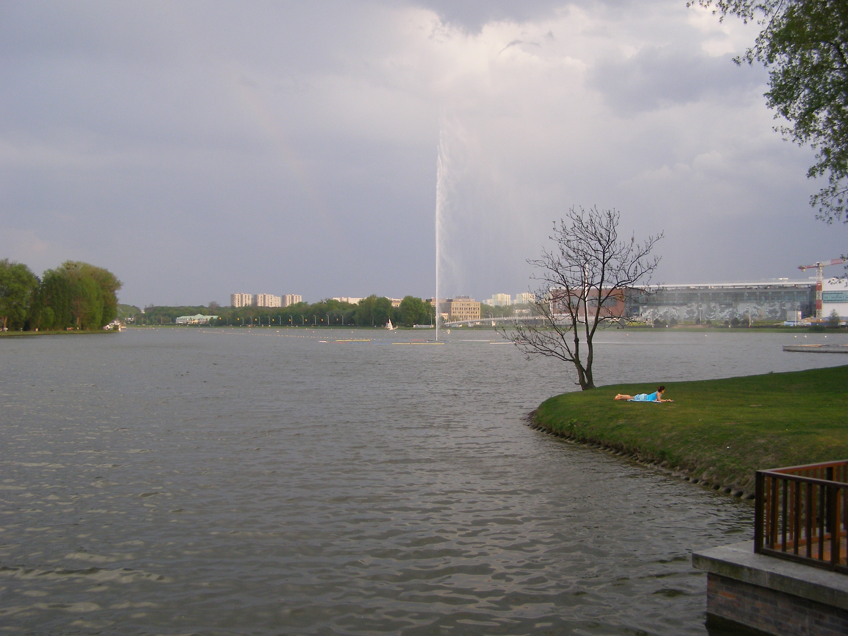 Poznań - Lake Malta